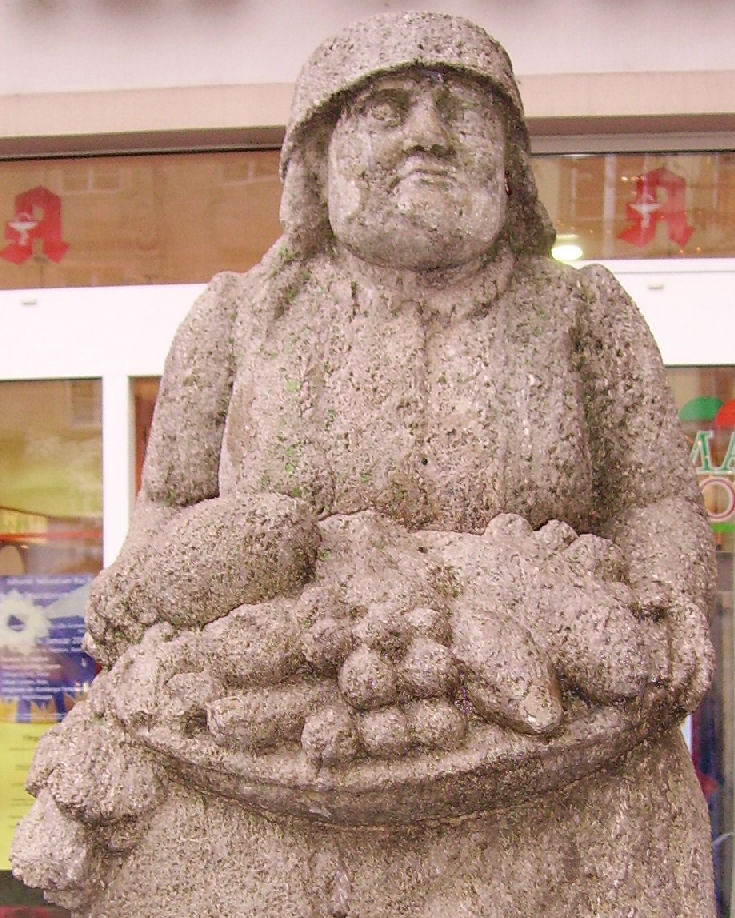 fountain in Bamberg, Germany